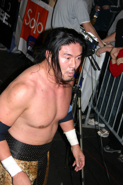 Kenzo Suzuki leaving the ring after his match used on the website online world of wrestling for his profile pagehere.